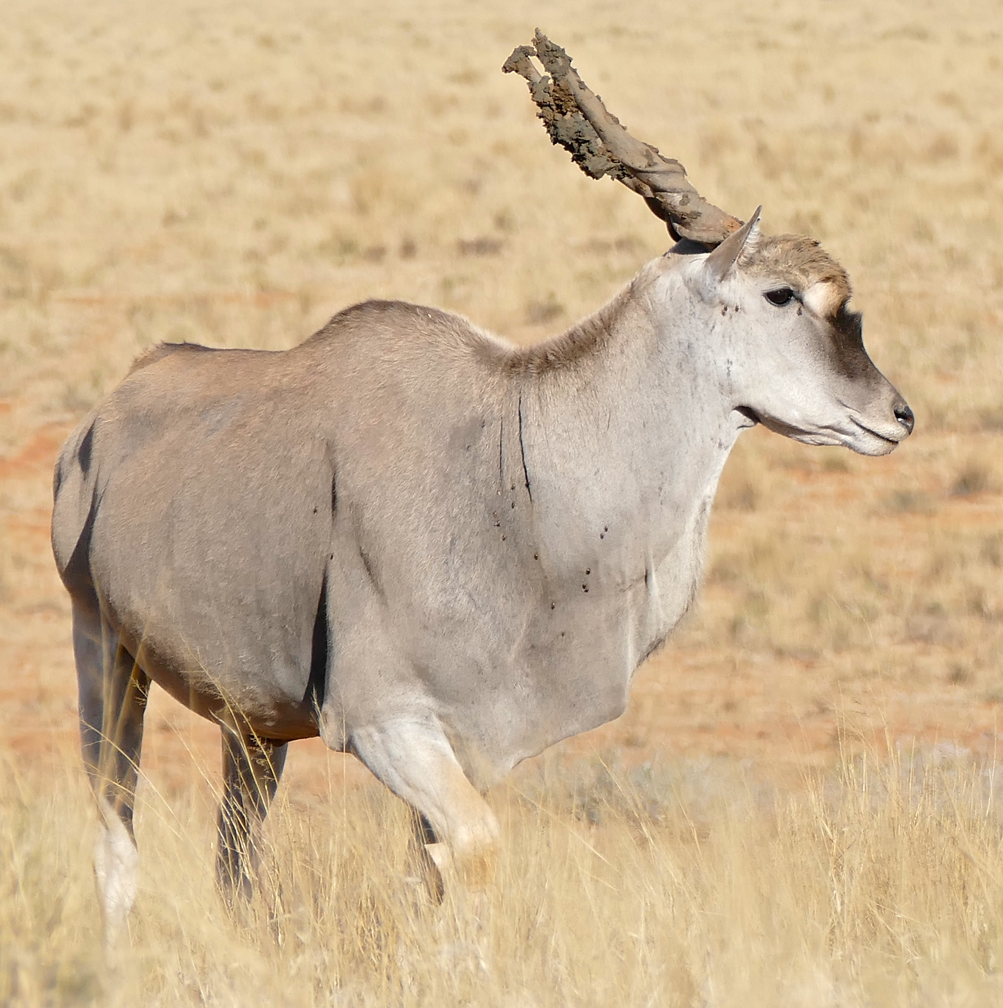 Lilydale Area, Mokala NP, Northern Cape, SOUTH AFRICA